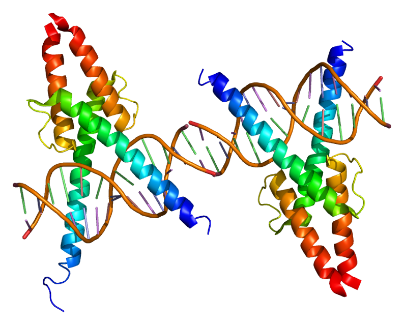 Structure of the MYOD1 protein. Based on PyMOL rendering of PDB 1mdy.